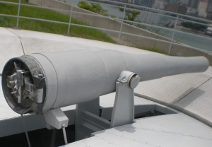 Closeup of one of two 6 inch BL (breech loading) disappearing guns emplaced at Lei Yue Mun Fort. The fort now forms a large part of the Hong Kong Museum of Coastal Defence. For full image see Image:6 inch BL Mk IV disappearing gun no. 1 A HKMCD.JPG